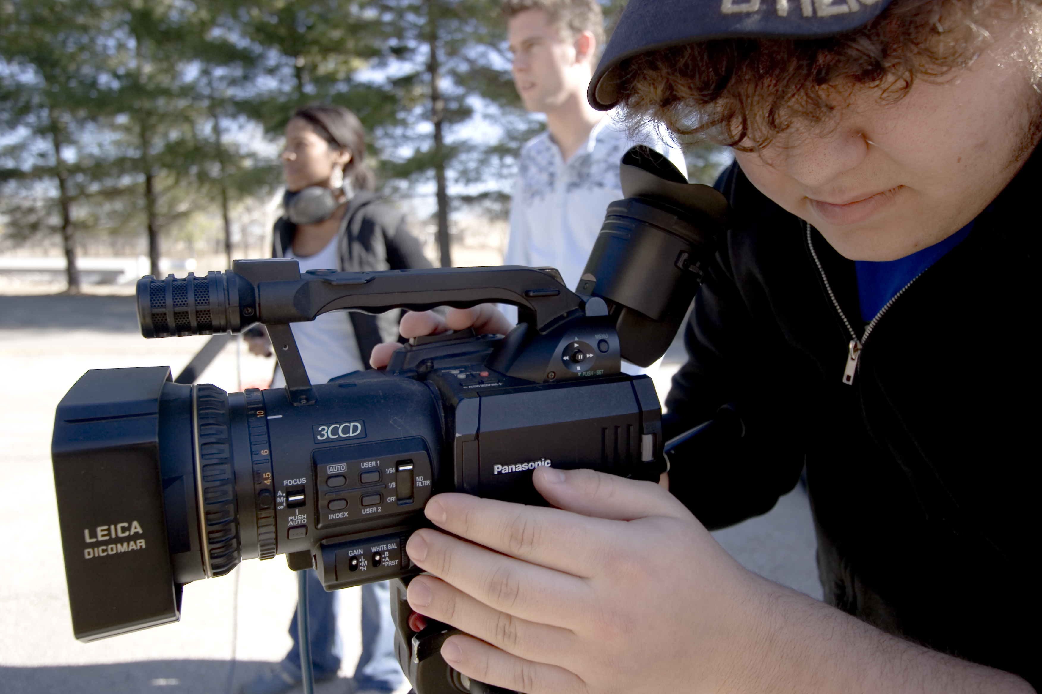 B - 2-23-07 shoot